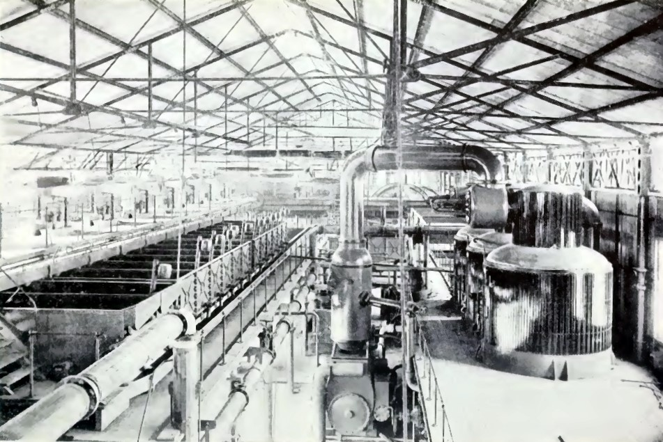 Albion plantation sugar factory c.1890